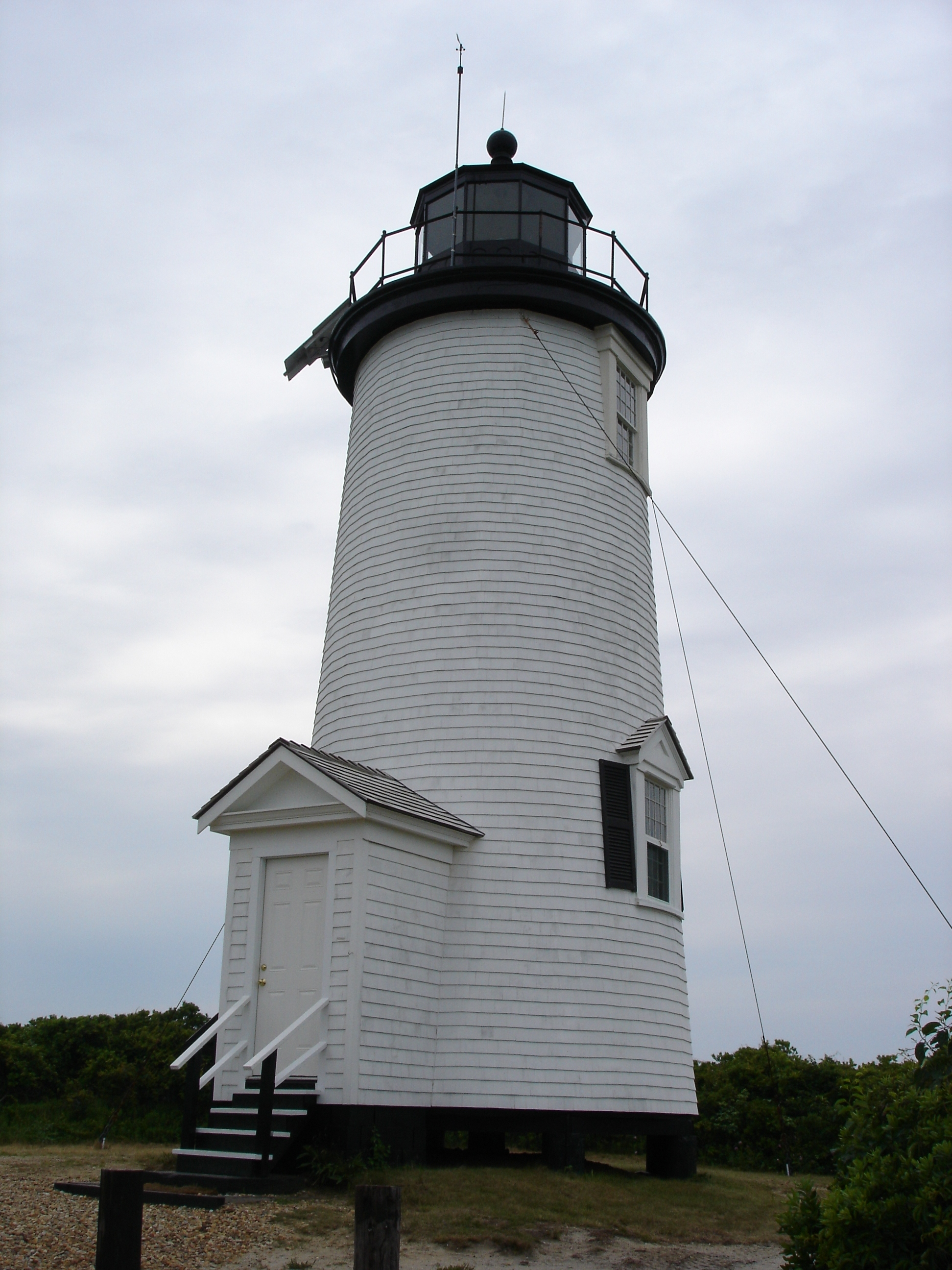 Picture of Cape Poge Lighthouse